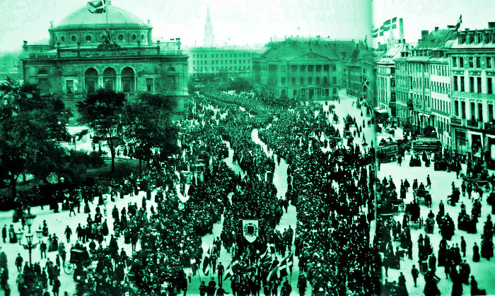 Danish women marching to Christiansborg (here at Kongens Nytorv) on 5 June 1815. The procession was led by Jutta Bojsen-Møller and Matilde Bajer from Dansk Kvindesamfund.